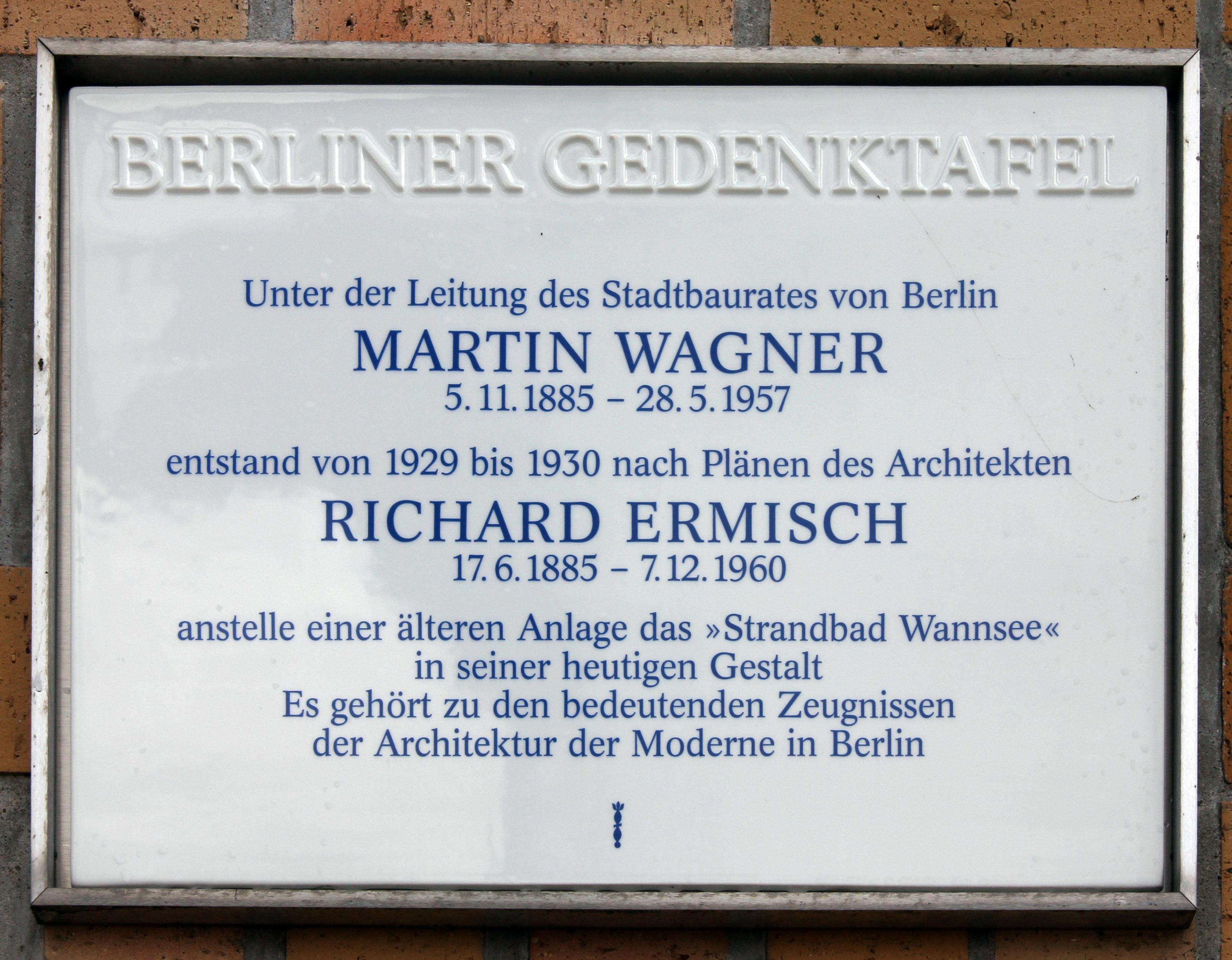 Berlin memorial plaque, Martin Wagner und Richard Ermisch, Wannseebadweg 25, Berlin-Nikolassee, Germany